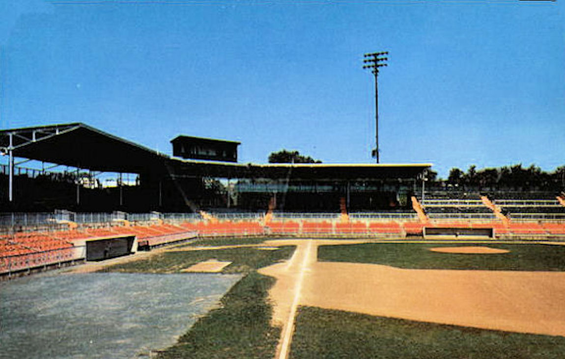 Max Hess Stadium - Allentown PA Scanned from slide of family photographs taken in the 1950s and 1960s